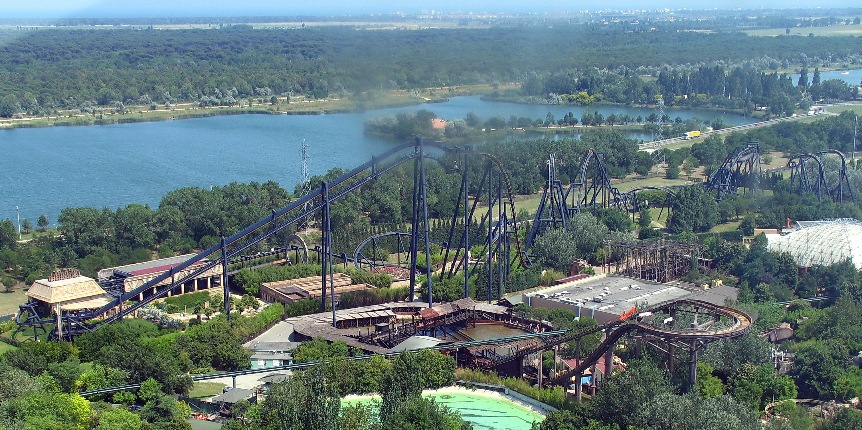 Inverted Coaster Katun at Mirabilandia seen from the Park's Ferris wheel